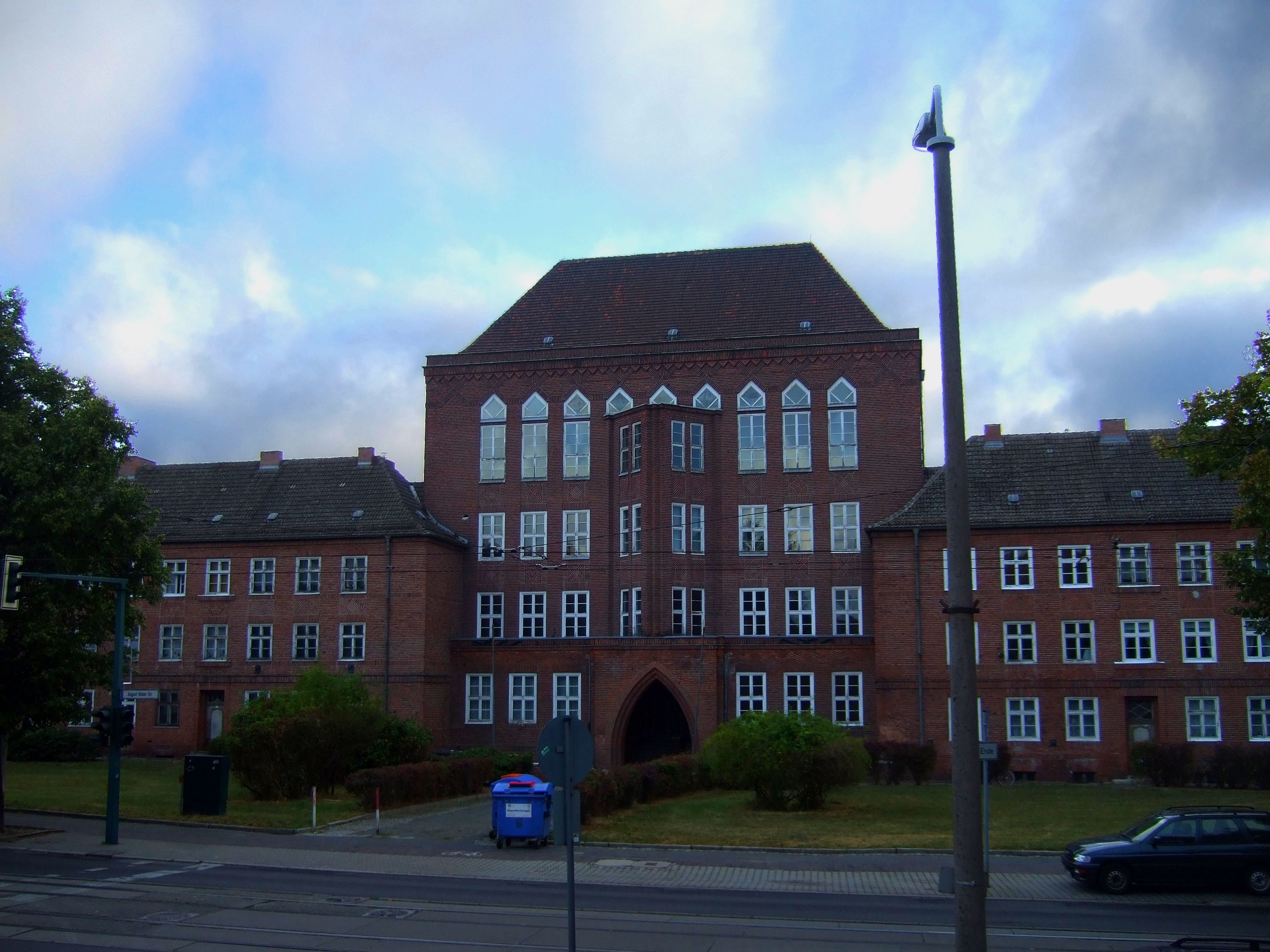 School Hindenburgschule (today School Erich-Kästner-Grundschule) in Frankfurt (Oder), Germany. Cultural heritage monument.